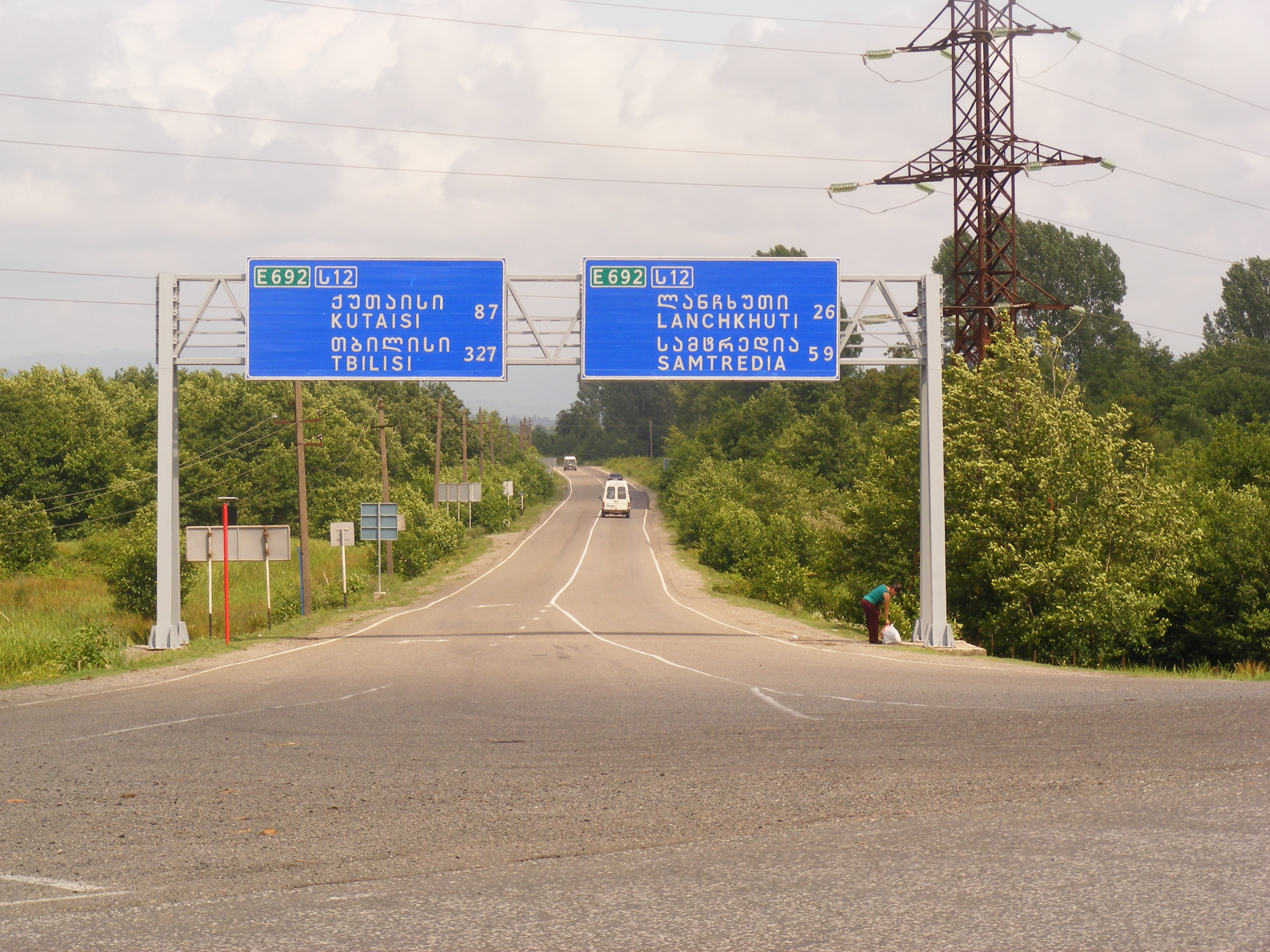 E60 and E692 crossroad in Supsa